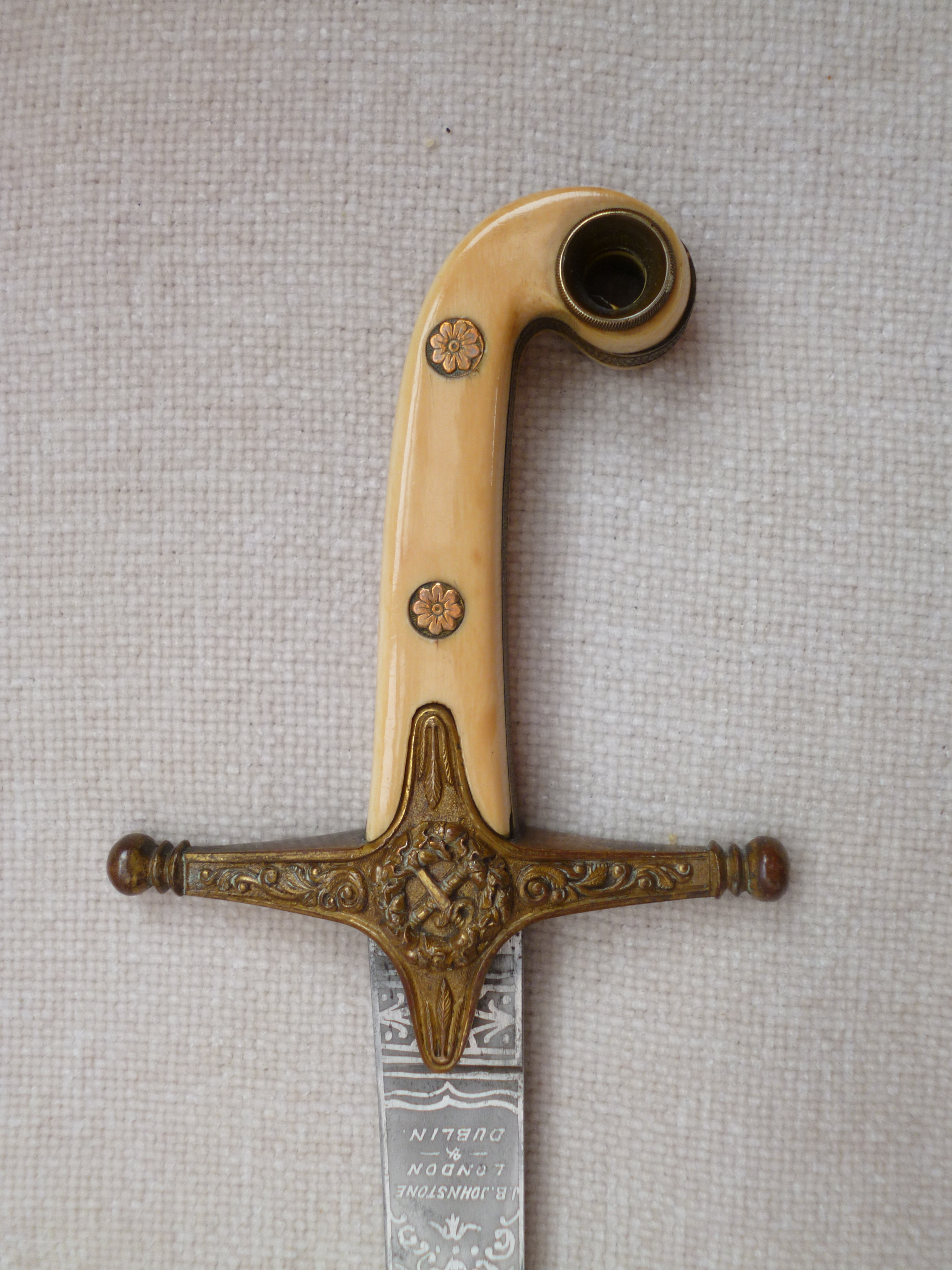 British Pattern 1831 sabre for the rank of major general and above. A sabre of mameluke type with ivory grips and brass scabbard. This particular sword is mid-Victorian and was retailed by J.B. Johnstone of London and Dublin, who were tailors and military outfitters. Detail of hilt.